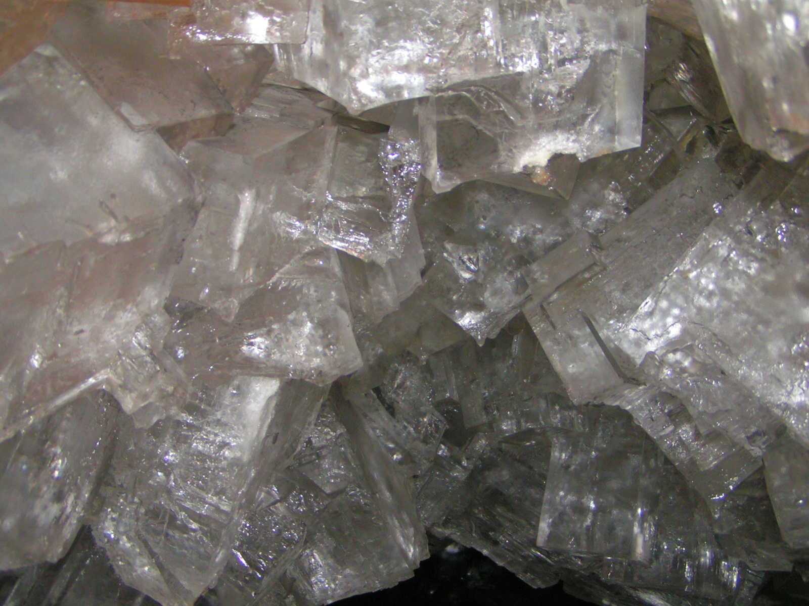 Crystal Caves 4